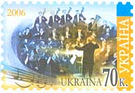 Stamp of Ukraine